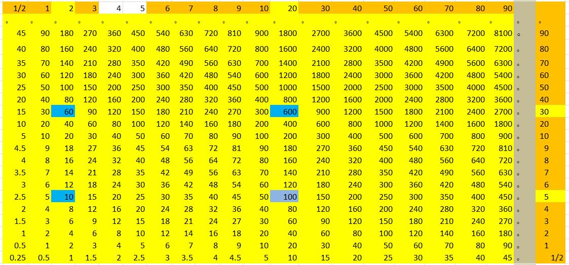 Example of using the Decimal mulitiplication table to calculate 22 x 35